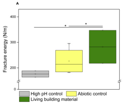 This is from an experiment on self-replicating concrete using cyanobacteria. The image compares the fracture energy of the living building material to the two abiotic controls used in the experiment.